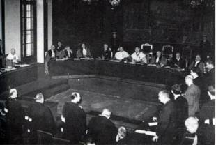 Los acusados en el proceso judicial de Riom declaran ante las autoridades de la Francia de Vichy 1941